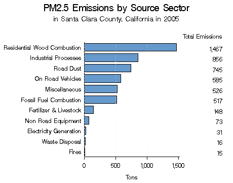 Graph showing particular emissions sources for Santa Clara County, California. This county is south of San Francisco Bay.